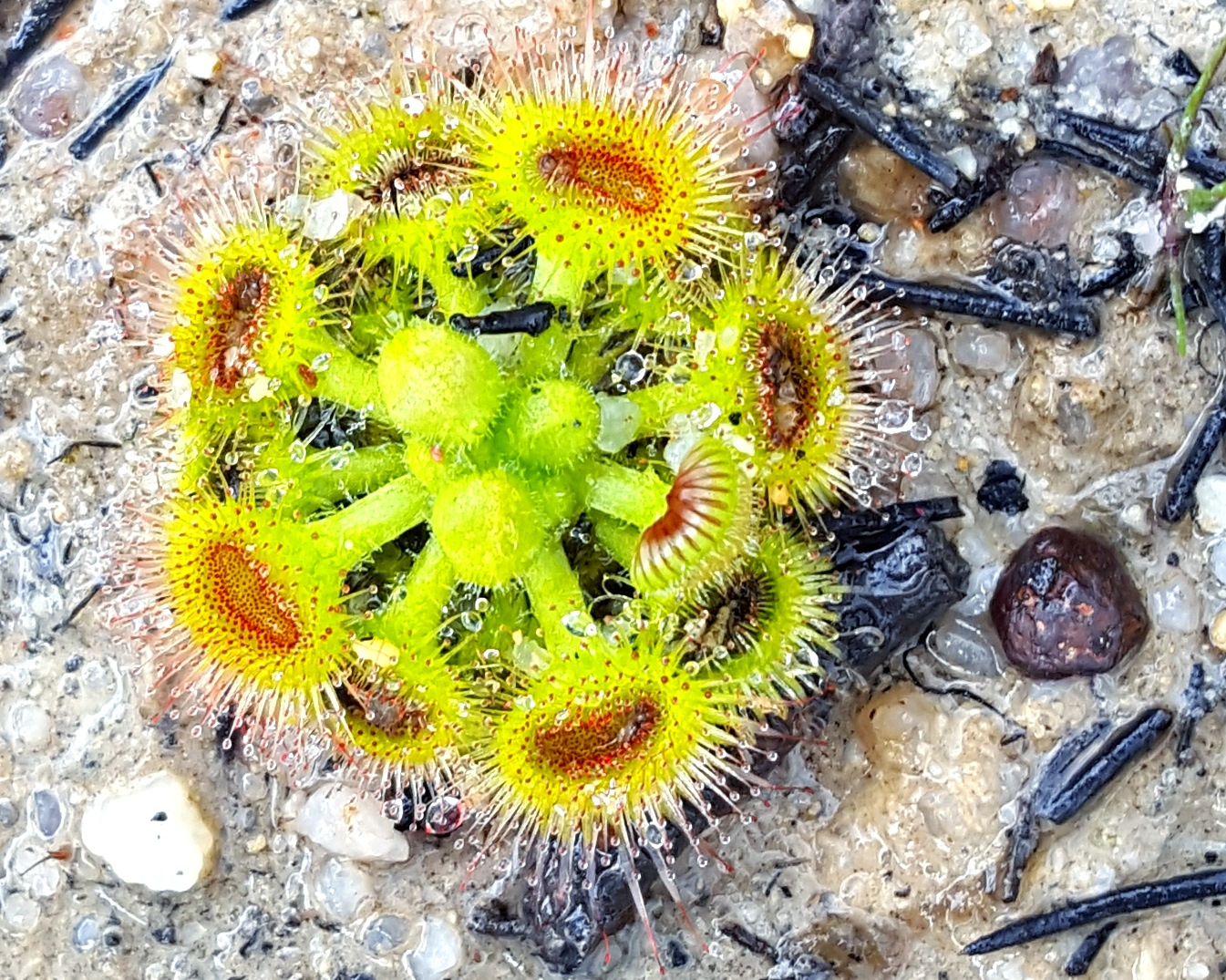 Drosera Glanduligera, the Pimpernel Sundew. Whistlepipe Gully, Lesmurdie, Western Australia